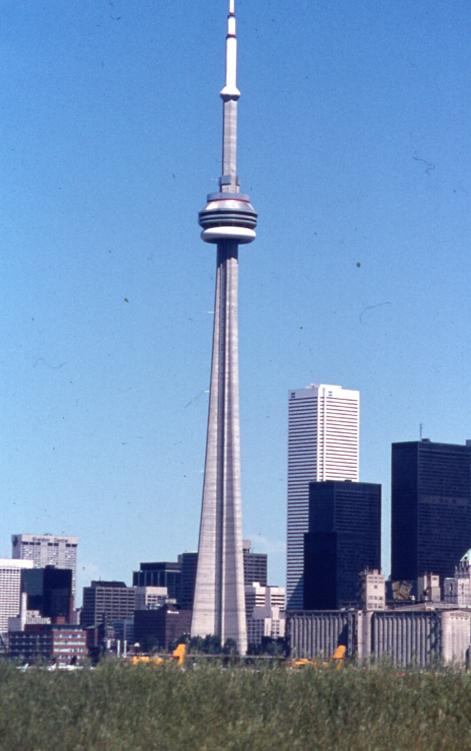 CN Tower in 1976. Toronto, Canada.